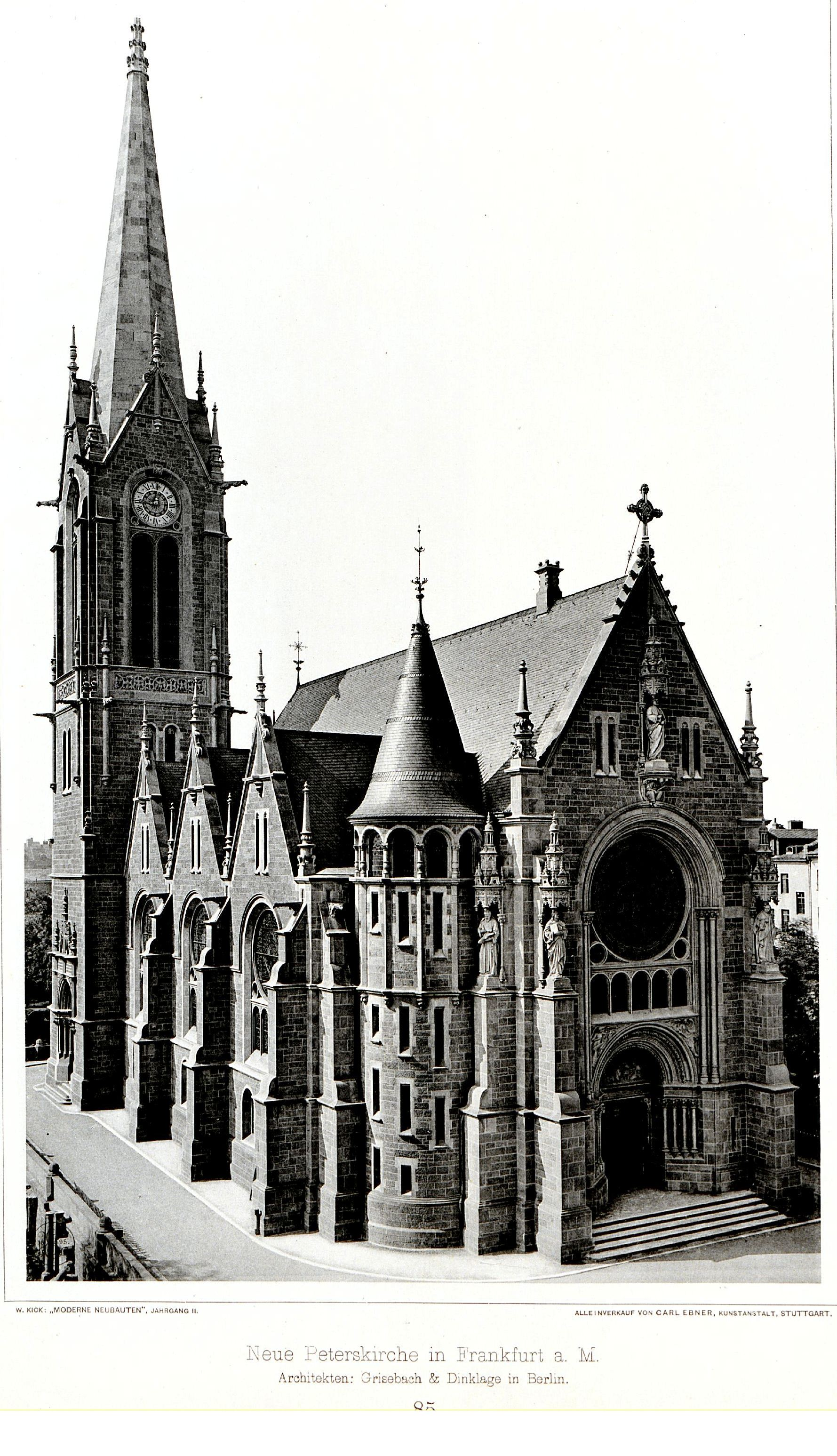 t